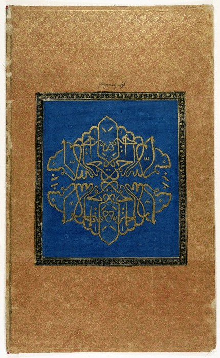 In this unusual calligraphic composition from southern India, the Arabic phrase "Bismillah al-Rahman al-Rahim" (“In the name of God, the Merciful, the Compassionate”) is written four times: right side up, upside down, and in reverse of each of these. It is the opening phrase of all but one of the chapters of the Qur\'an. In the little inscription in black ink above, the page is referred to as a tughra, a type of calligraphic emblem that originated in Turkey in the sixteenth century and became popular in India in the nineteenth. Mirror writing in various cursive and squared scripts was a common practice in India, Turkey, and Iran in the eighteenth and nineteenth centuries. Calligraphers were the most celebrated artisans in traditional Islamic cultures: to repeat the Bismillah is to repeat the word of God; to do so in beautiful script is to glorify the word of God.